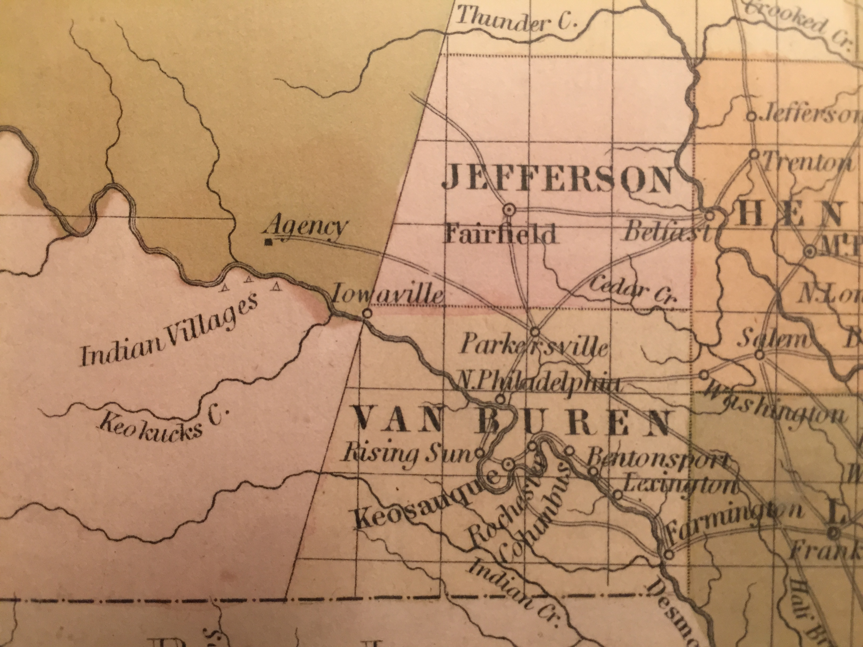 Iowaville and Other Native Villages in 1845 Map of Iowa